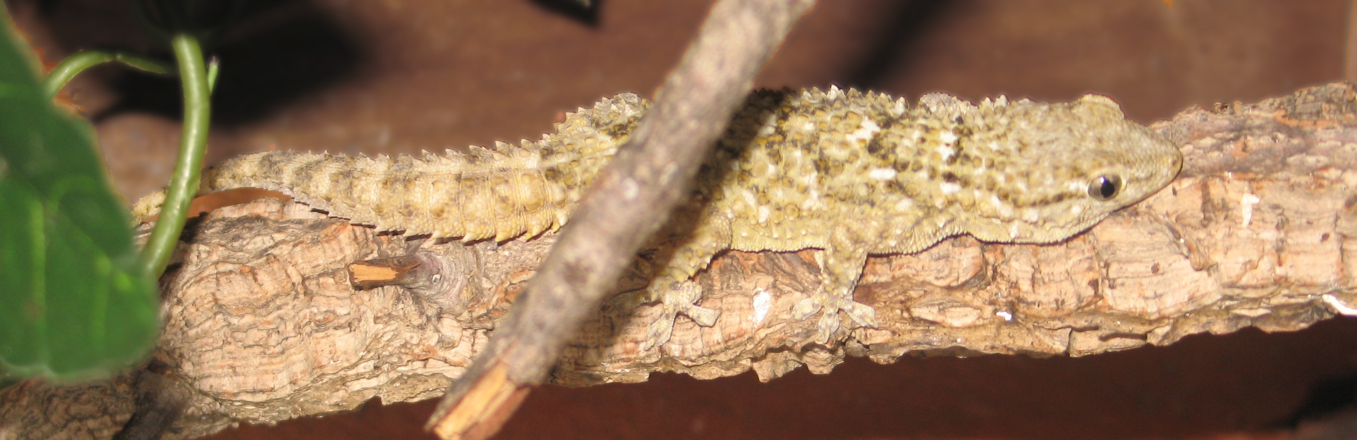 Gecko of species Tarentola mauritanica. Personnal picture.